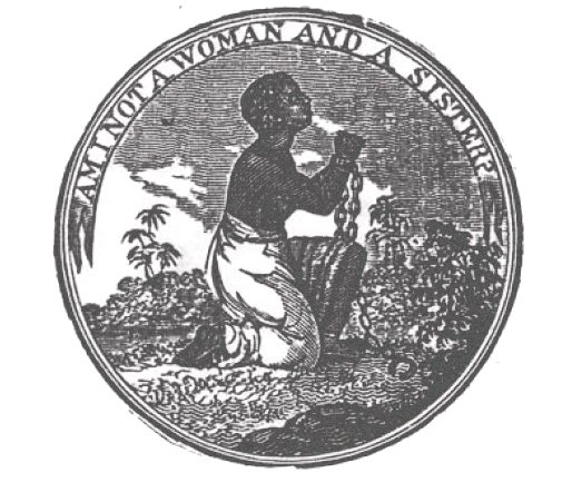 A slave woman kneels in a tropical setting, with hands clasped in supplication, saying the words "Am I Not A Woman And A Sister?"